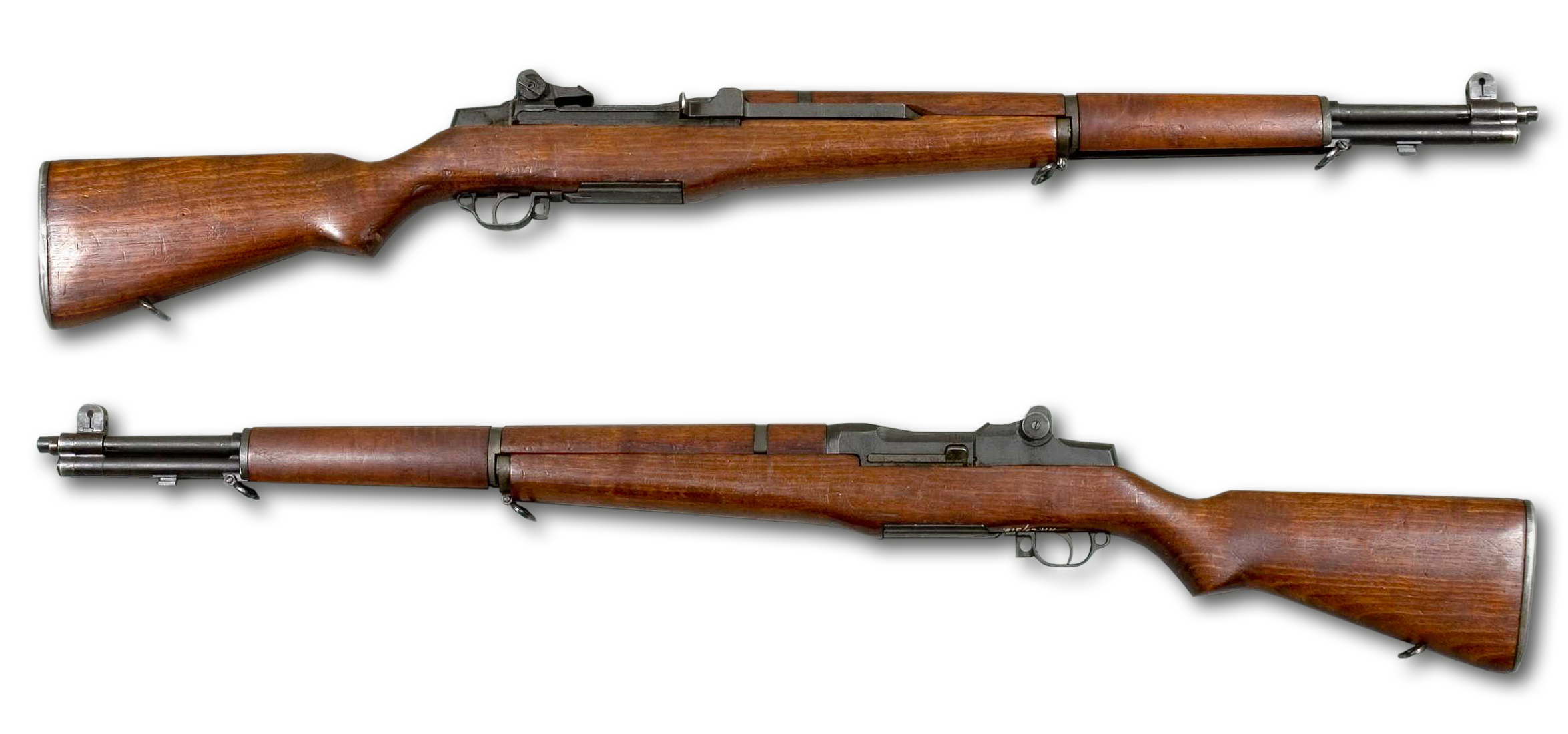 M1 Garand rifle, USA. Caliber .30-06. From the collections of Armémuseum (Swedish Army Museum), Stockholm.